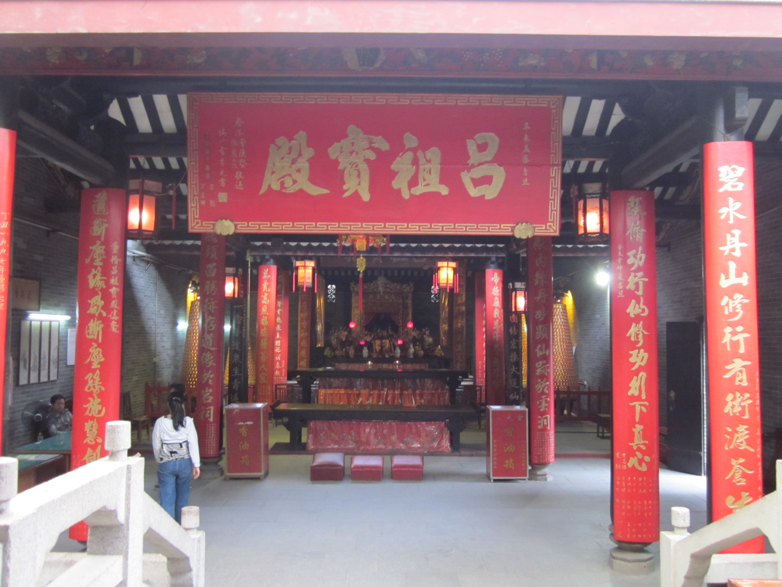 San-yuan Palace